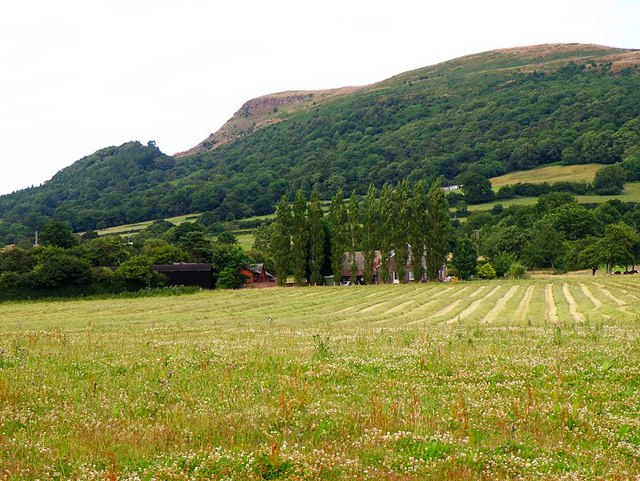 Ysgyryd Fawr View of Ysgyryd Fawr (486m) with Stud Farm hidden behind some trees